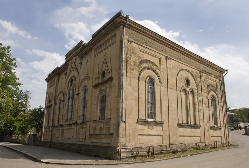 The Synagogue in Kutaisi Georgia